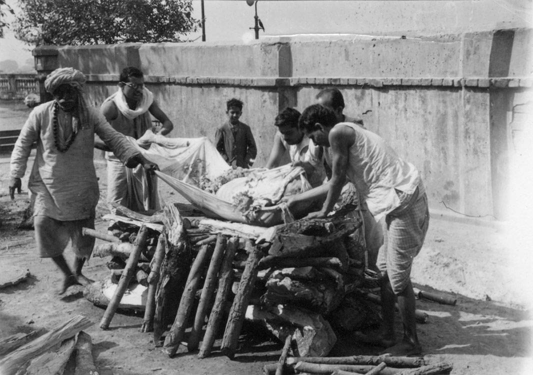 Cremation Ceremony. Pushing body on. Calcutta, 1944 [from a collection of prints mounted on airmail tissue that were used to ship photos home to the U.S.; contact sheet 7]. Subject: cremation